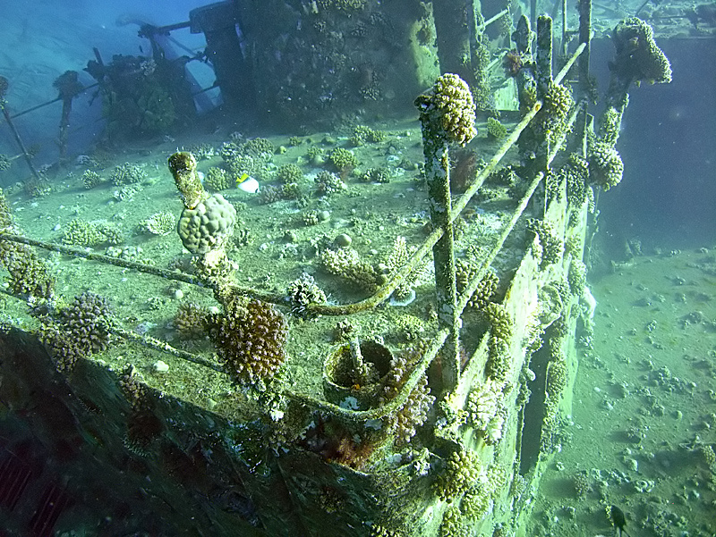 Deck of the Giannis D., Sha'b Abu el-Nuhas, Gulf of Suez, Egypt